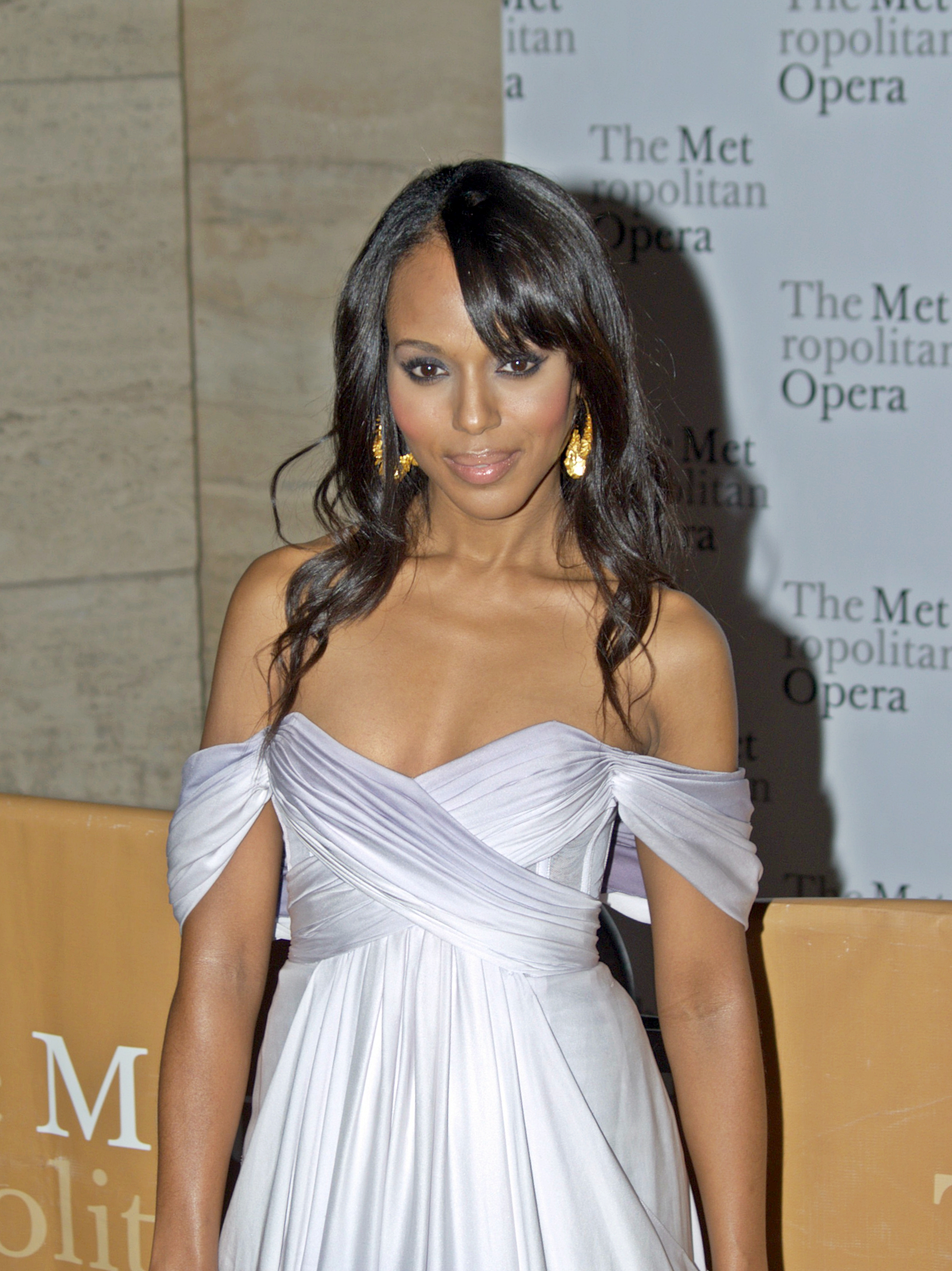 Kerry Washington at Metropolitan Opera's 2010-11 Season Opening Night - "Das Rheingold"